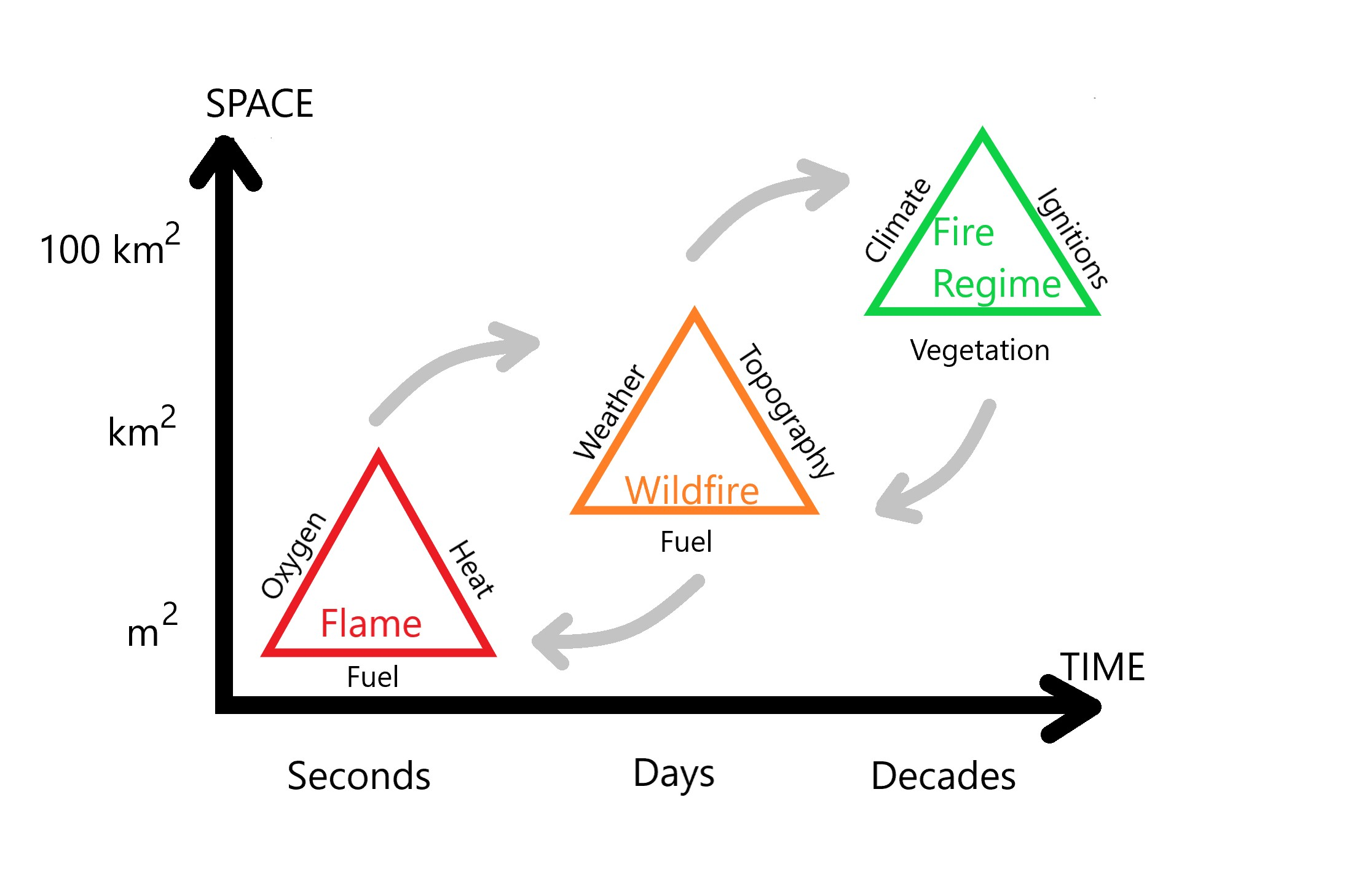 The adaptation of new dimensions of the fire triangle shifts with the change of space and time.